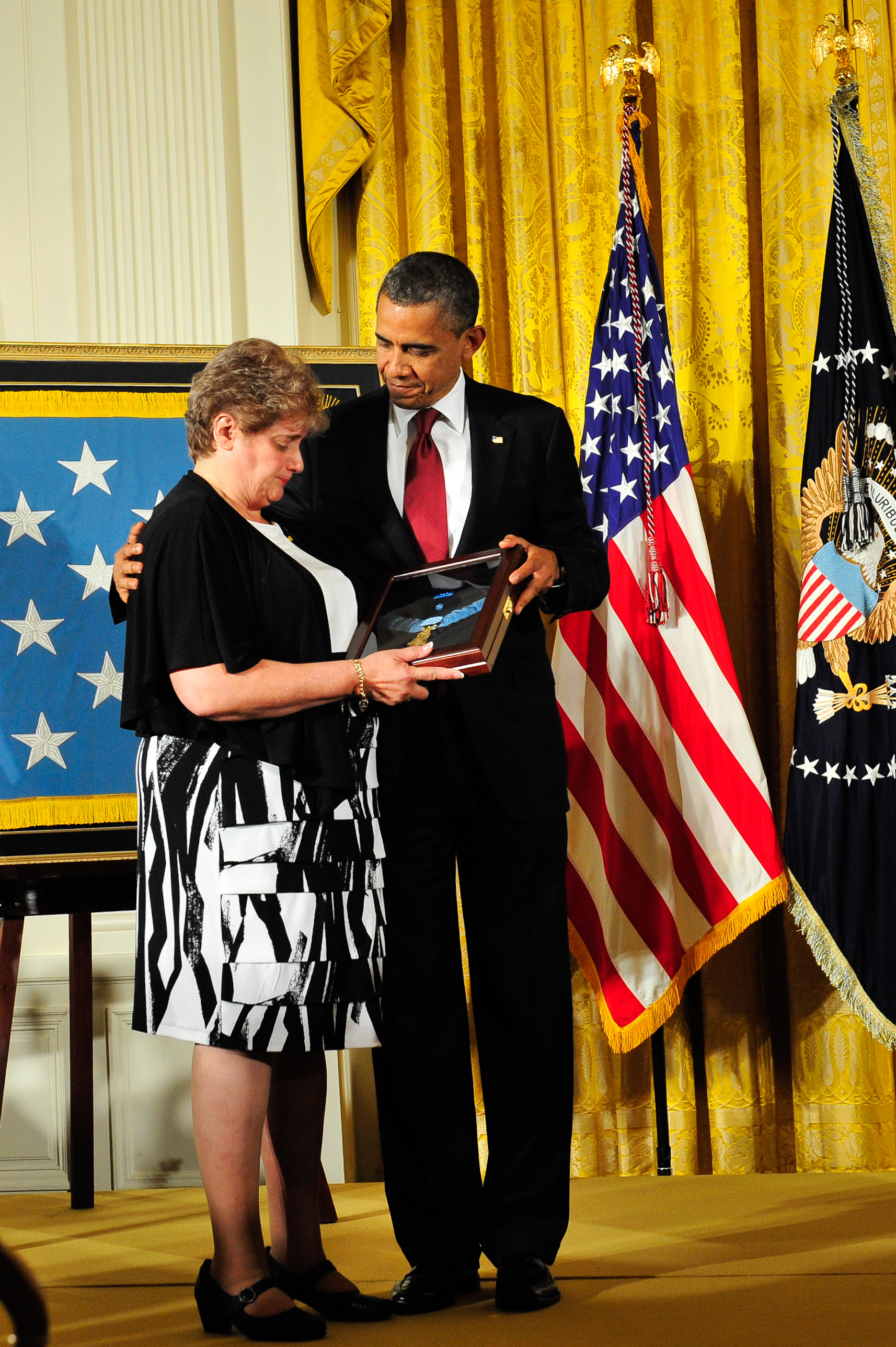 President Barack Obama presents the Medal of Honor to Rose Buccelli, Specialist 4 Leslie H. Sabo Jr.'s widow, during the White House Medal of Honor ceremony, posthumously, in honor of Spc. 4 Sabo. Then 22-year-old Sabo was killed in action in Cambodia in 1970 while saving the lives of his fellow soldiers, Washington D.C., May 16, 2012. Army Multimedia & Visual Information Directorate Photo by Eboni Everson-Myart Date Taken:05.16.2011 Location:DC, US Read more